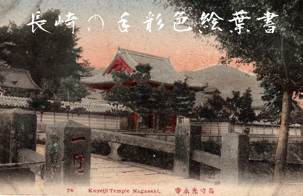 Japanese hand tinted postcard of Koeiji, a Buddhist temple in Nagasaki